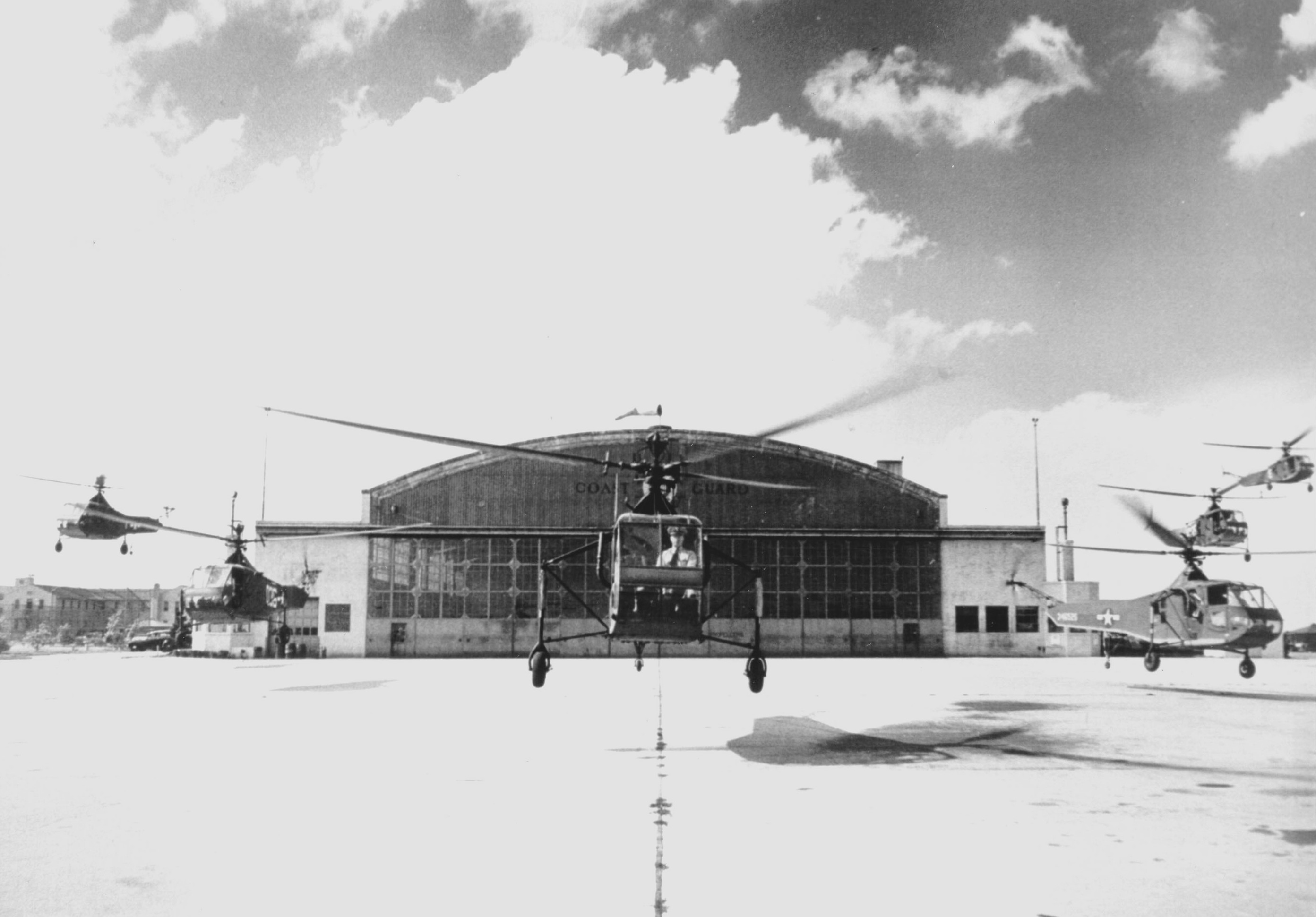 Six U.S. Coast Guard Sikorsky HNS-1 at Floyd Bennett Field, New Jersey (USA), circa in 1944.